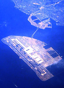 中部国際空港（2003年9月撮影） Chubu International Airport Photo by Wiki0001